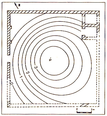 Plan Tumulus7 Inertepe BG